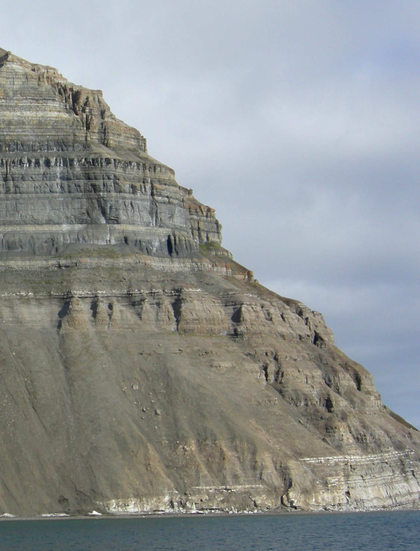 Stratigraphic column along the northern bank of Isfjorden, Spitsbergen, Svalbard, Norway.